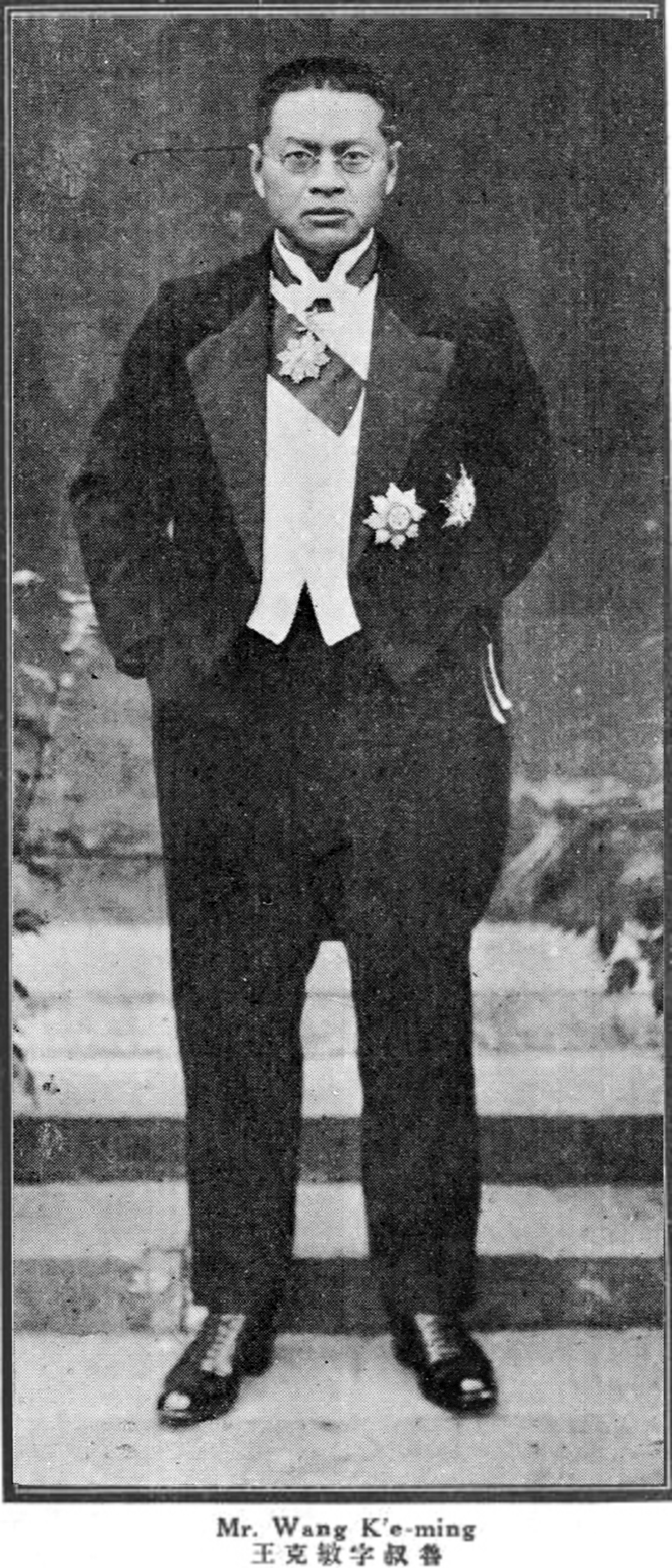 Wang Kemin, Shulu (1873 - 1945)